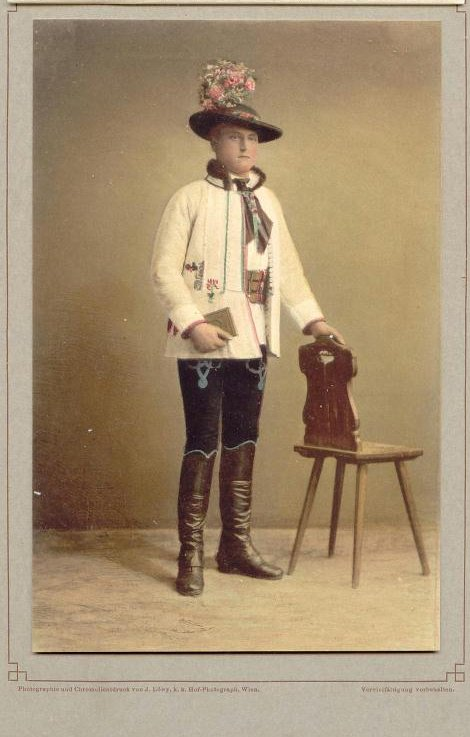 Transylvanian Saxon lad from Hammersdorf (Gușterița) (colored photograph)